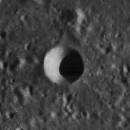 Plato H crater, on the moon.